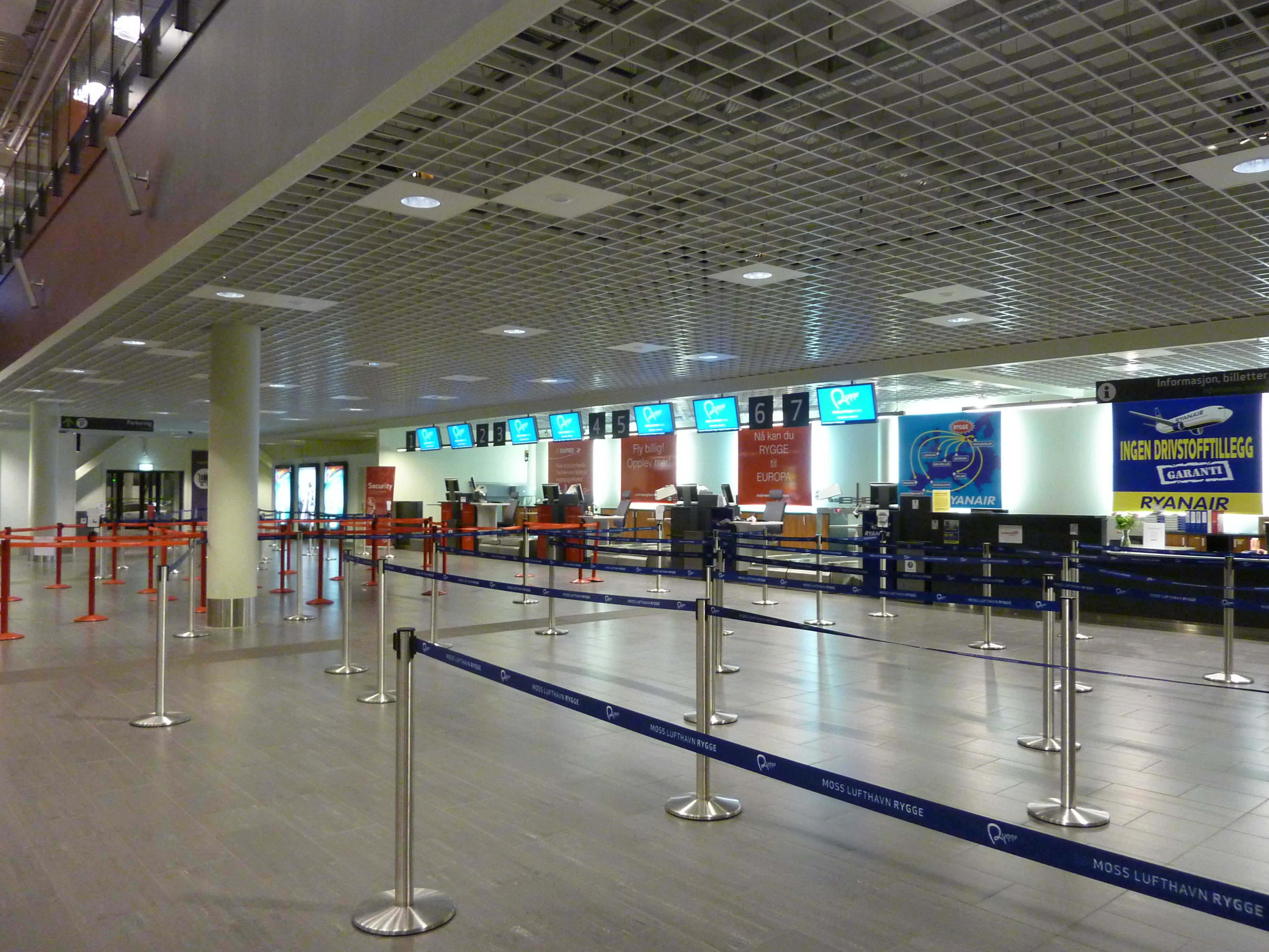 Check-In at Moss Airport, Rygge